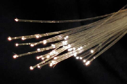 Fibre optic strands